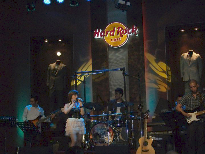 Nina singing "Fall for You" live at Hard Rock Cafe on April 16, 2011.